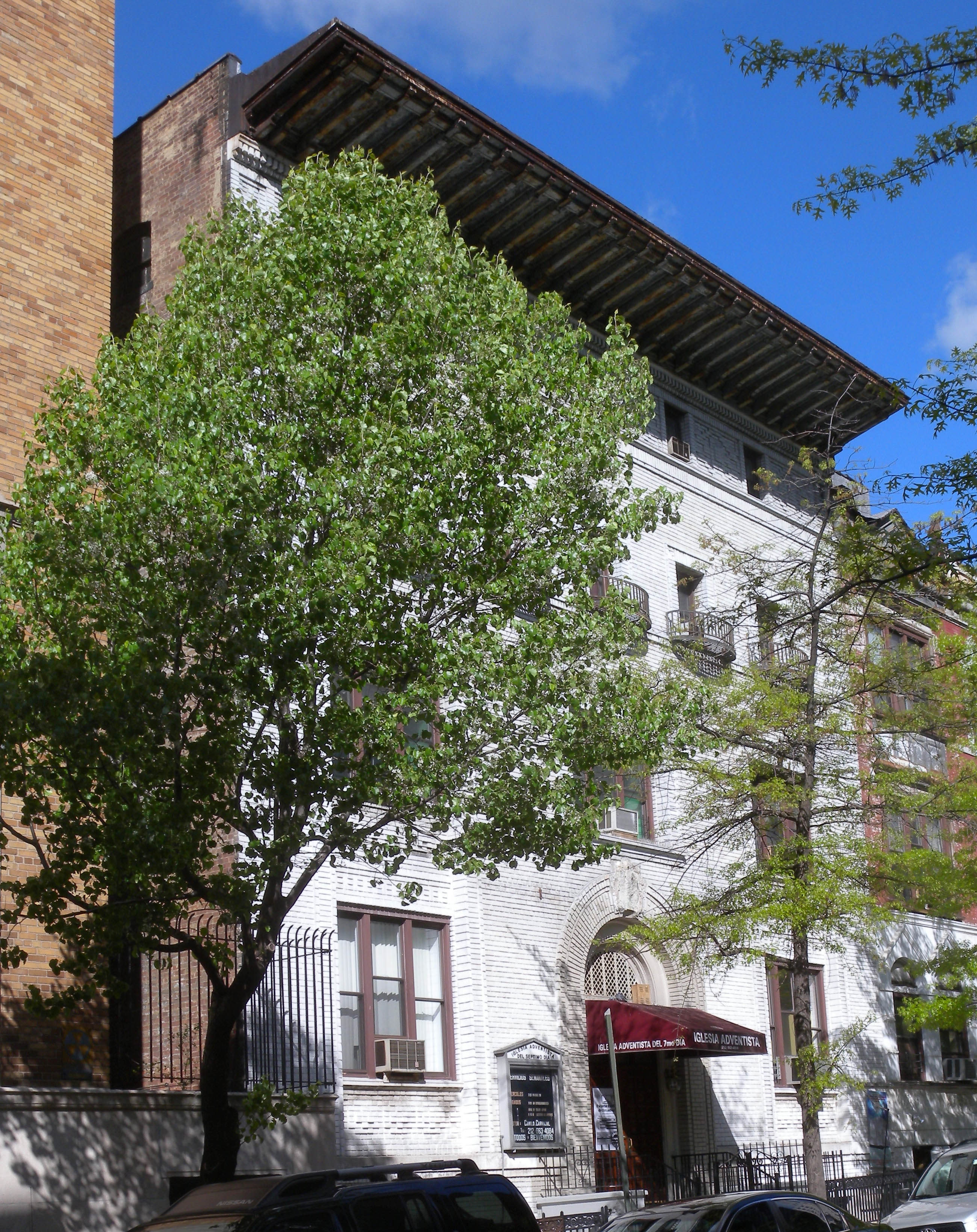 Looking east at en:161 West 93rd Street (New York City), formerly Nippon Club.